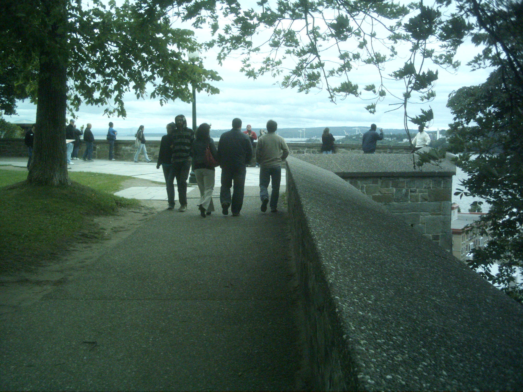 Montmorency Park in Quebec City, wall